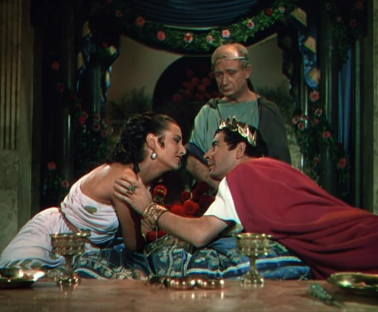 Marina Berti & Leo Genn in Quo Vadis - trailer (cropped screenshot)